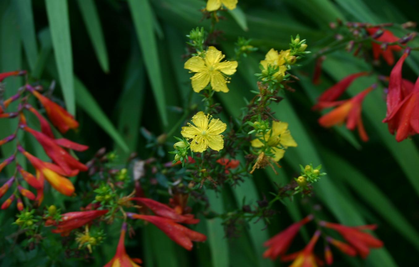 Hypericum perforatum: Flowers Hypericum perforatum